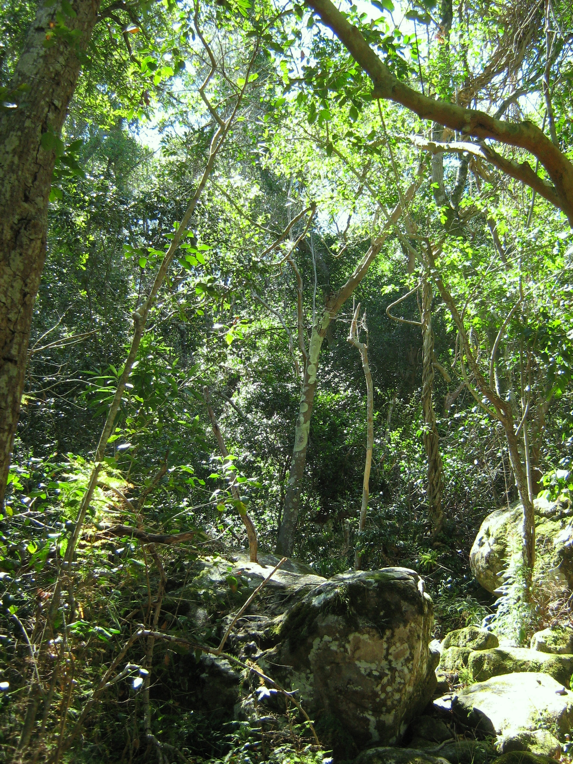 Indigenous trees of Afromontane forest vegetation. Newlands Forest. Cape Town.